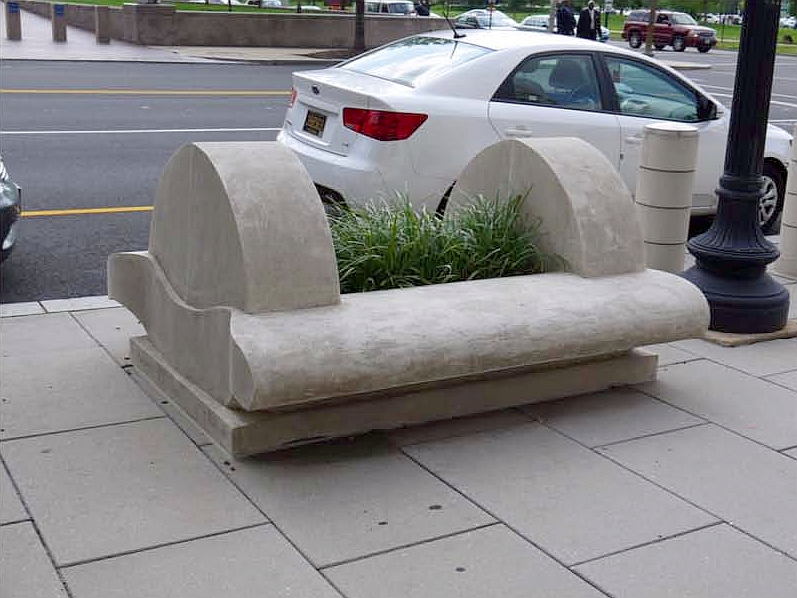 Security bollard/planter in Washington, D.C.